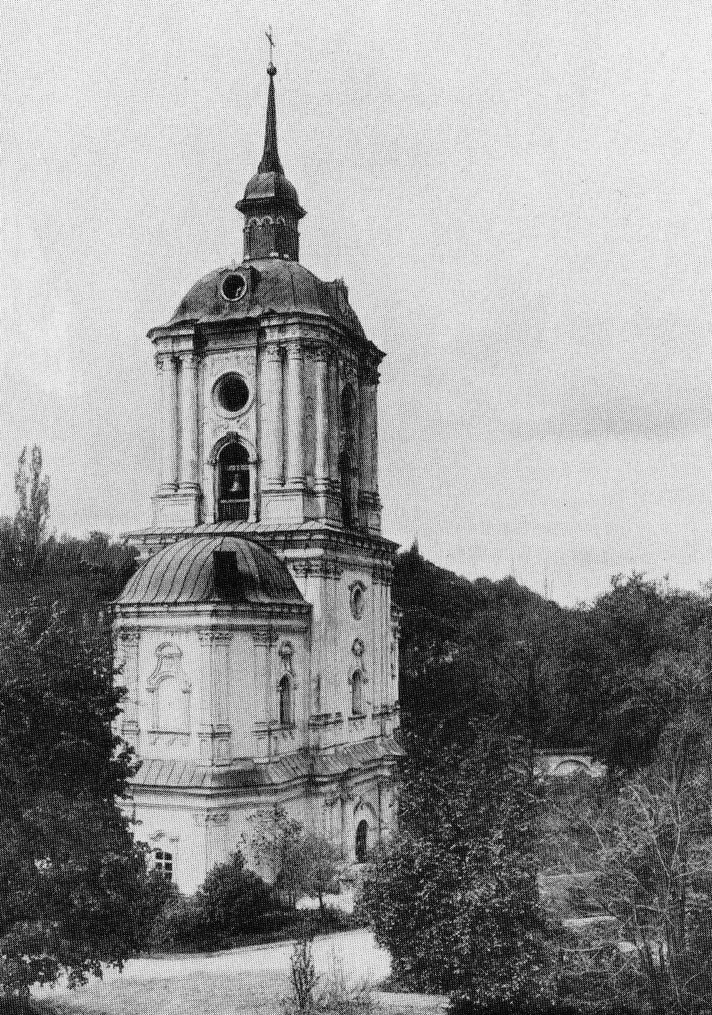 Belfry of the St. Cyril's Monastery in Kiev, Ukraine.